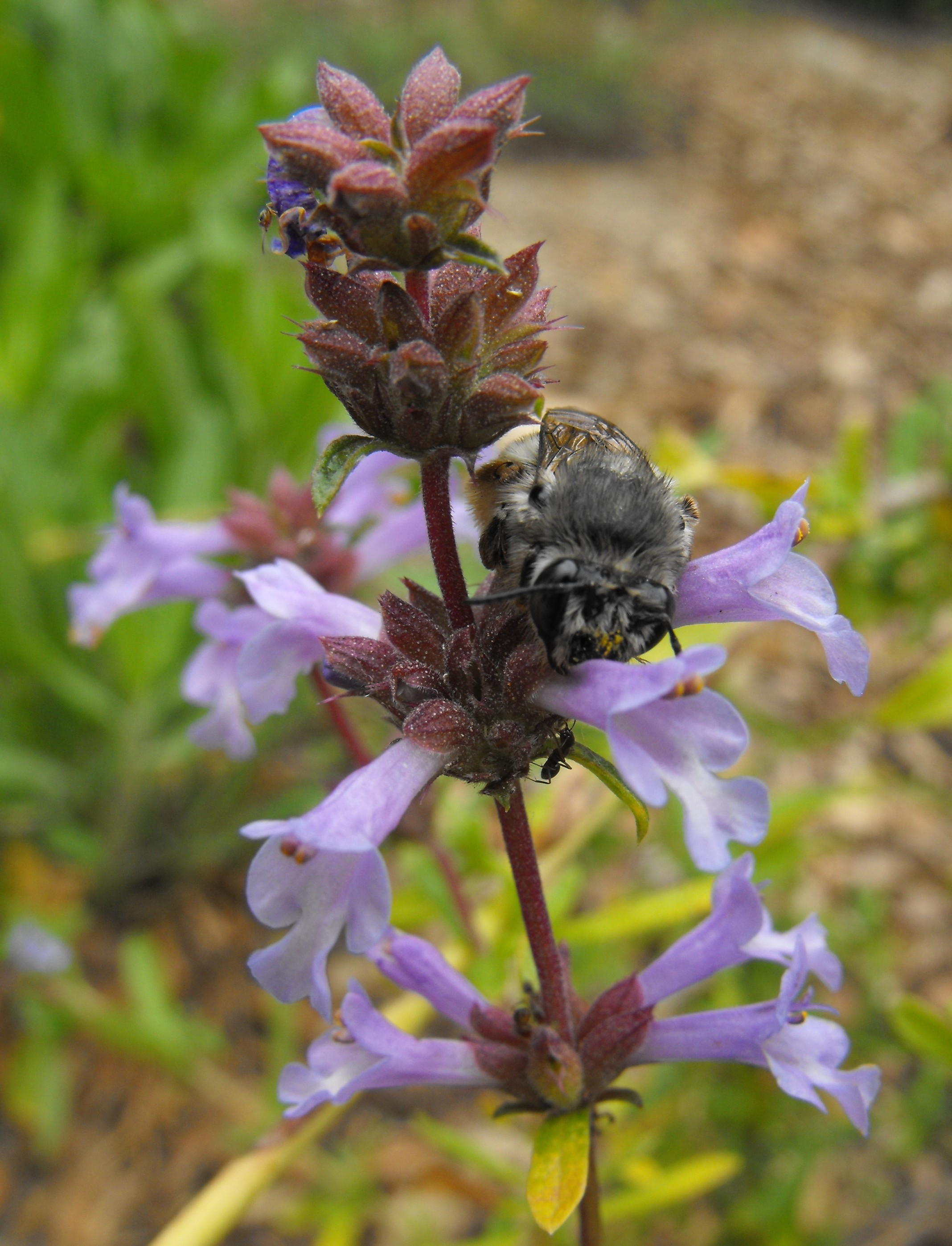 Salvia munzii (with a bee) - at the Rancho Santa Ana Botanic Garden in Claremont, Southern California, U.S. Identified by garden i.d. sign.